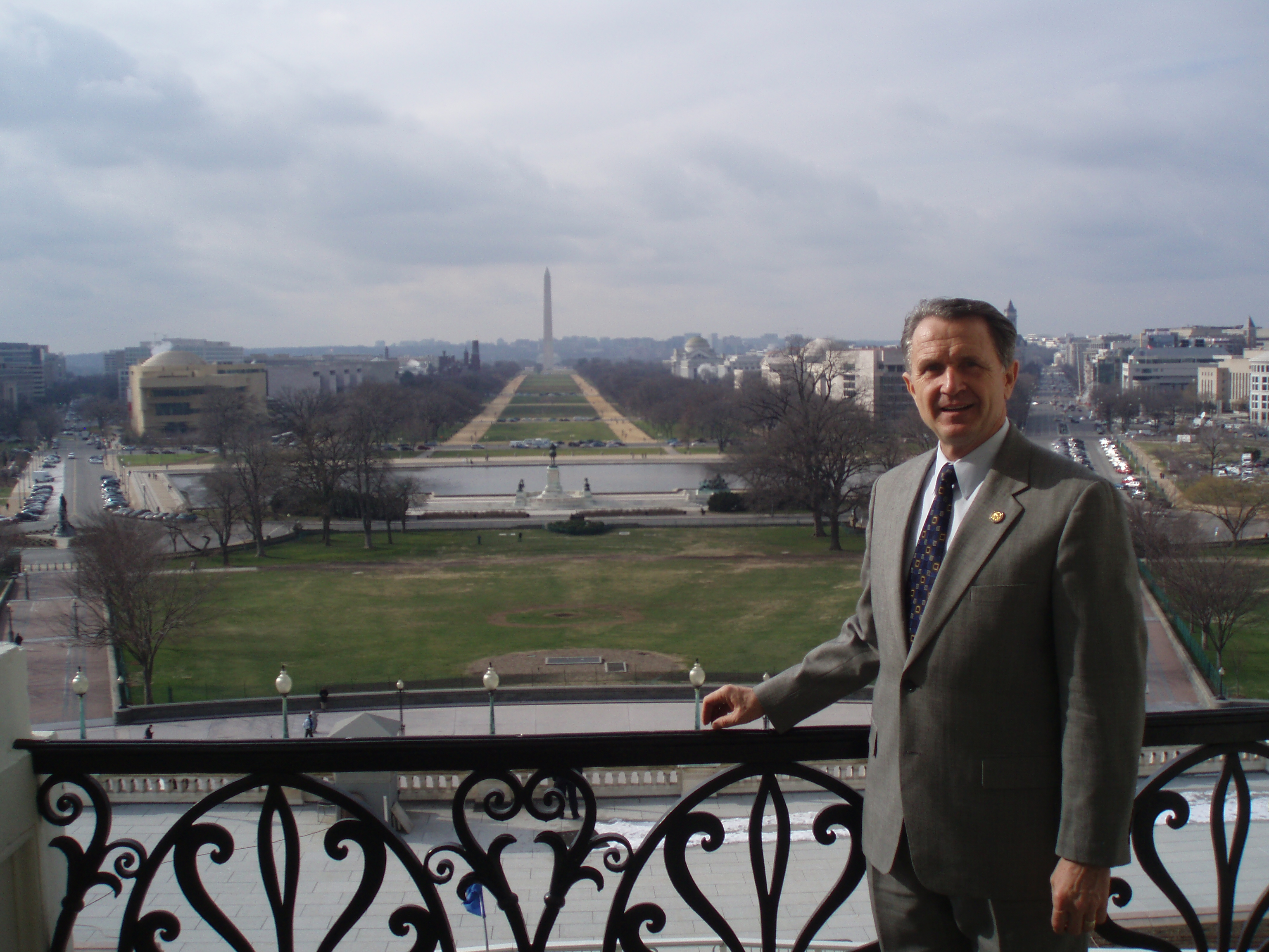 A photograph of Congressman Wally Herger taken on the Speaker's Balcony overlooking the National Mall.